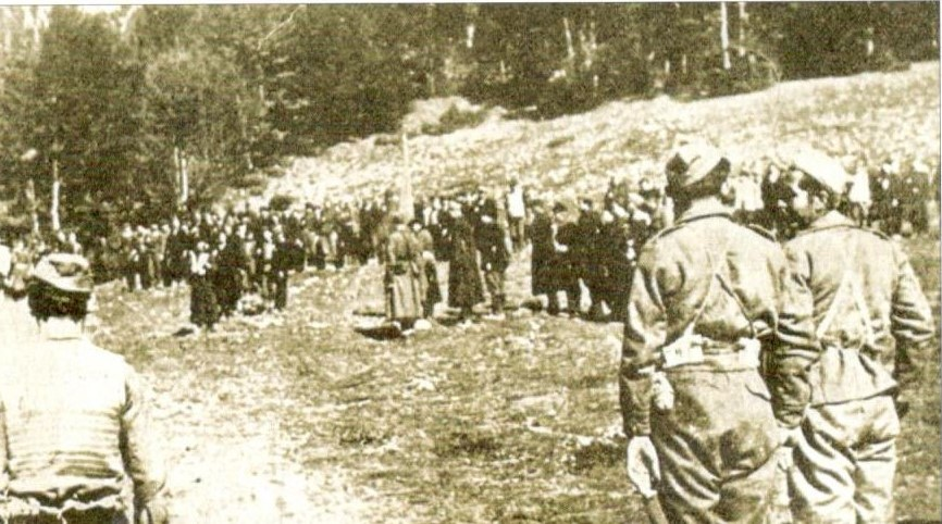 Foundation of the Macedonian partisan battalion "Straso Pindzur" in 1943